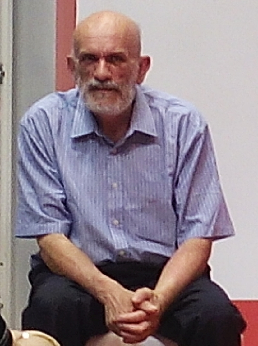 Italian illustrator Francesco Corni (Salone del Libro 2015, Turin)